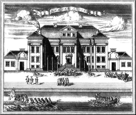 Saint Petersburg (Russia), First Winter Palace. A. Zubov, First Winter Palace - Bridal House of Peter I, St Petersburg: View, 1717, copper plate. - Hermitage, St Petersburg.